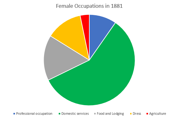 A pie chart to show Female Occupation in 1881